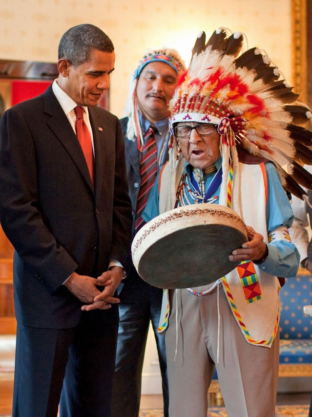 Barack Obama and Joe Medicine Crow, in 2009.